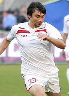 Russian football midfielder Kazbek Geteriev